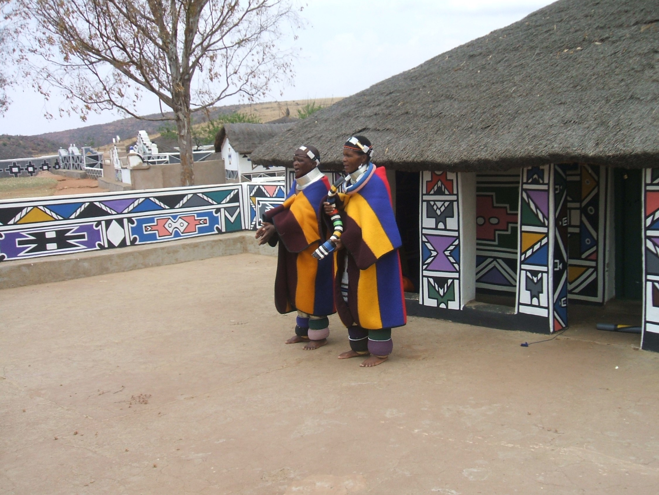 Ndebele Teachers Training